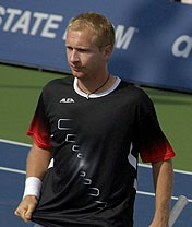 Lukas Dlouhy at the 2008 Rogers Cup